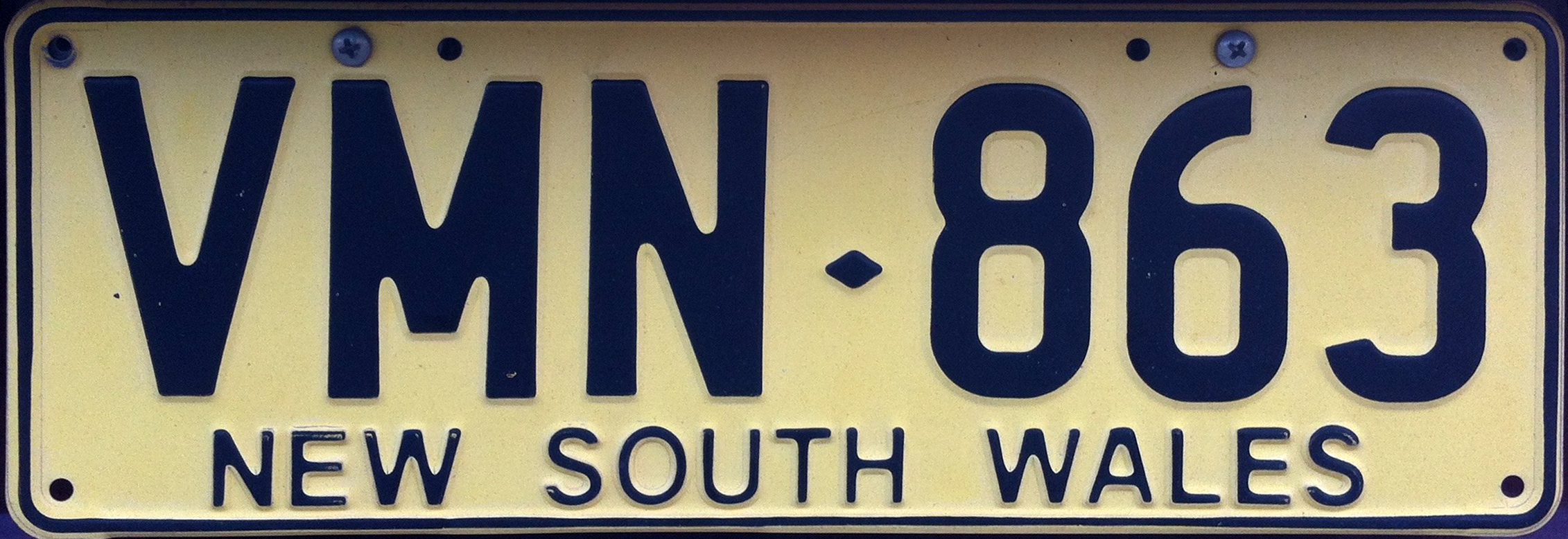 General issue vehicle registration plate of New South Wales, standard size, VMN-863. Registered to a white Holden Commodore (VT II) Acclaim sedan.